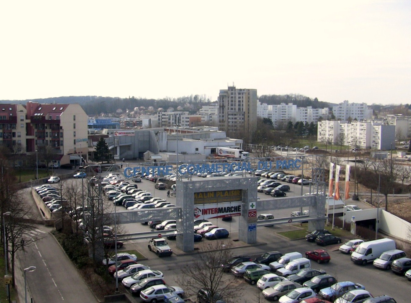 Commercial center of the pak, in Besançon (Doubs, France).